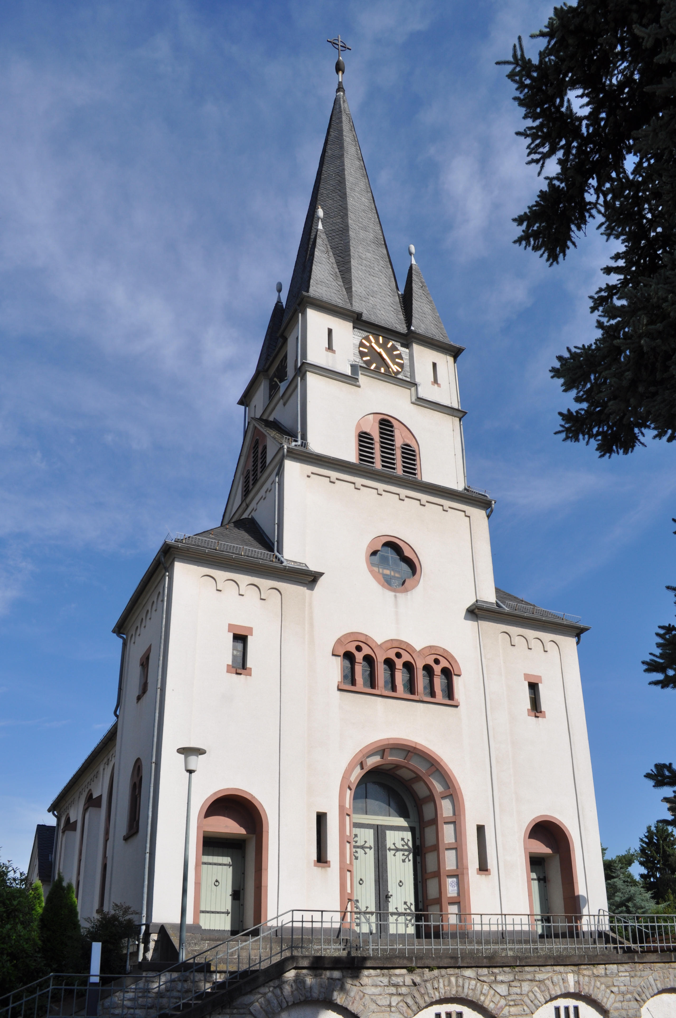 Protestant Memorial Church in Kirdorf